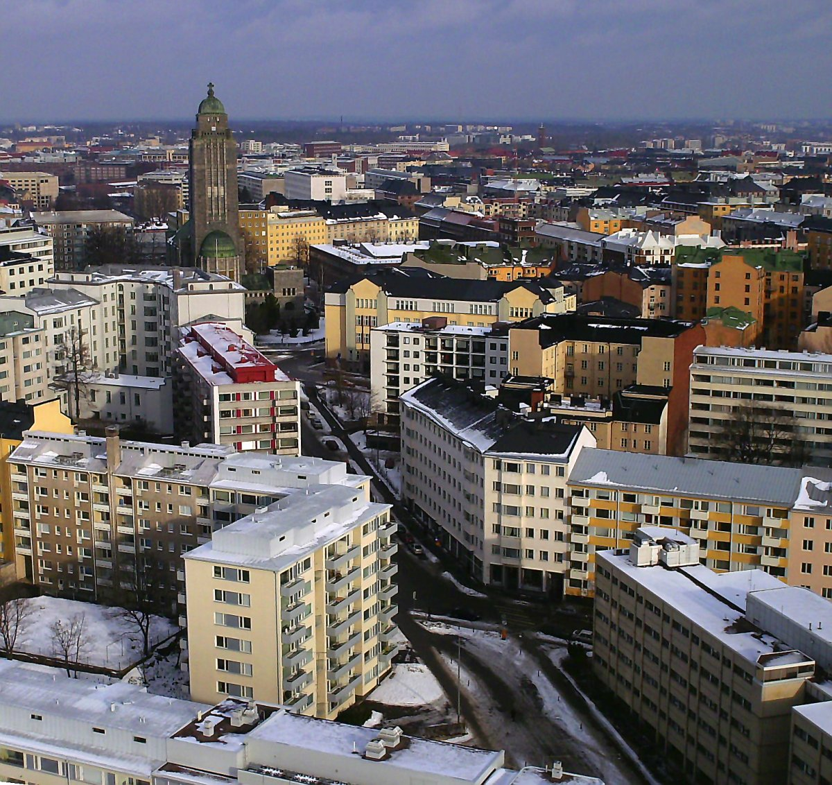 Kallio in Helsinki from air